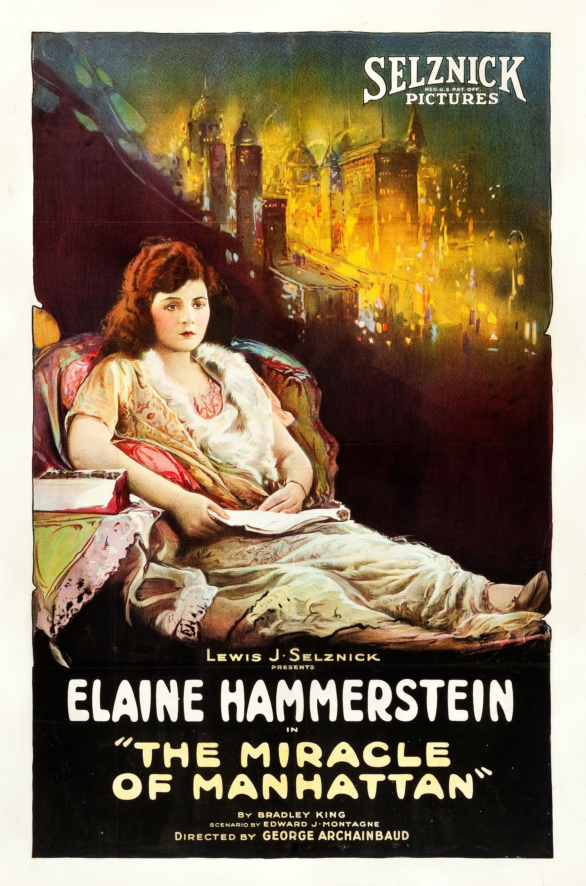 Poster for the American melodrama film The Miracle of Manhattan (1921) with Elaine Hammerstein.